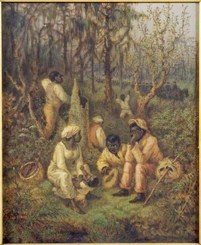 Painting depicting the pre-Civil War era of slavery in Virginia, of enslaved African Americans in the Great Dismal Swamp maroons.